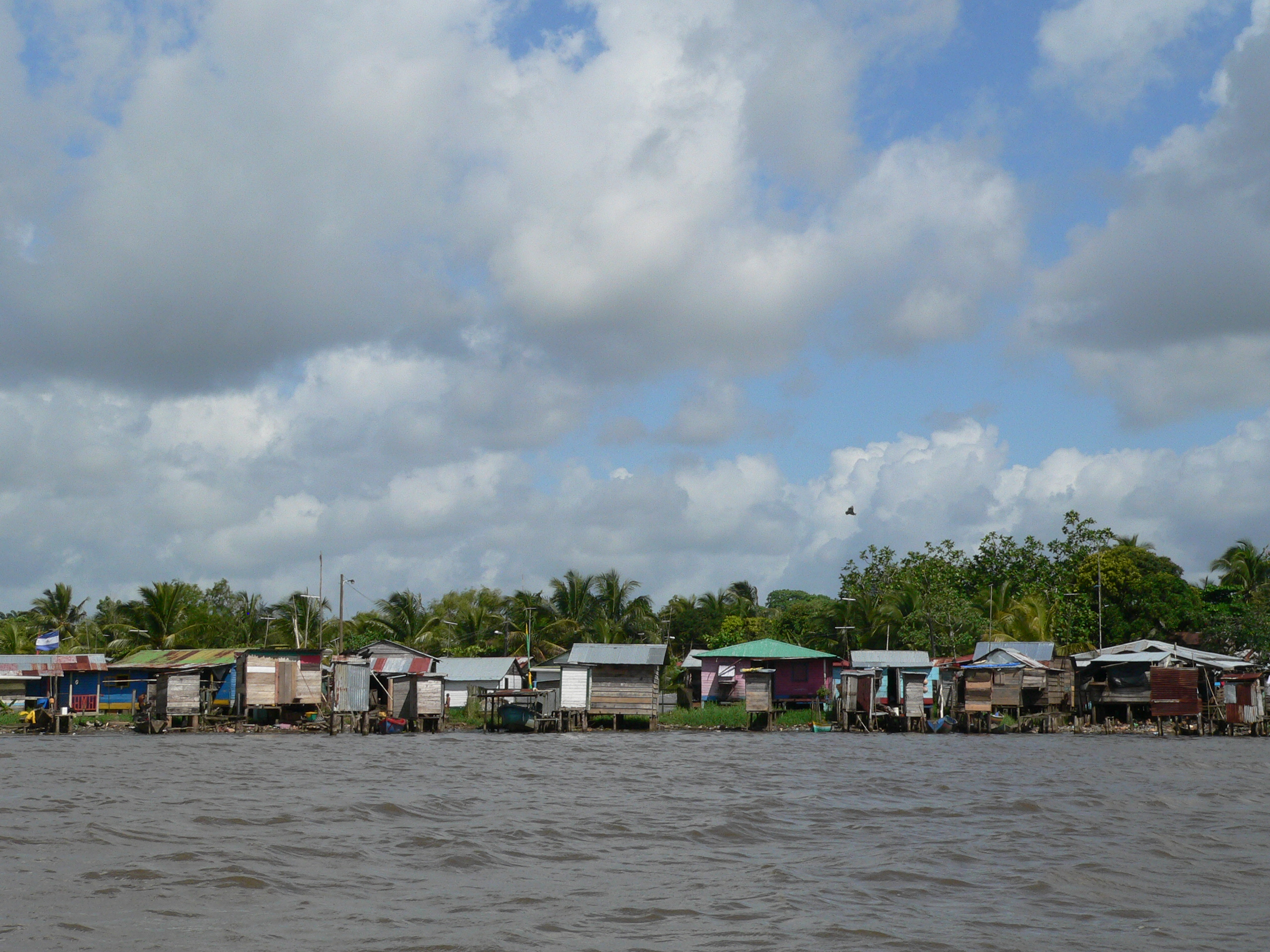 Bluefields Bay waterfront homes, near Four Brothers